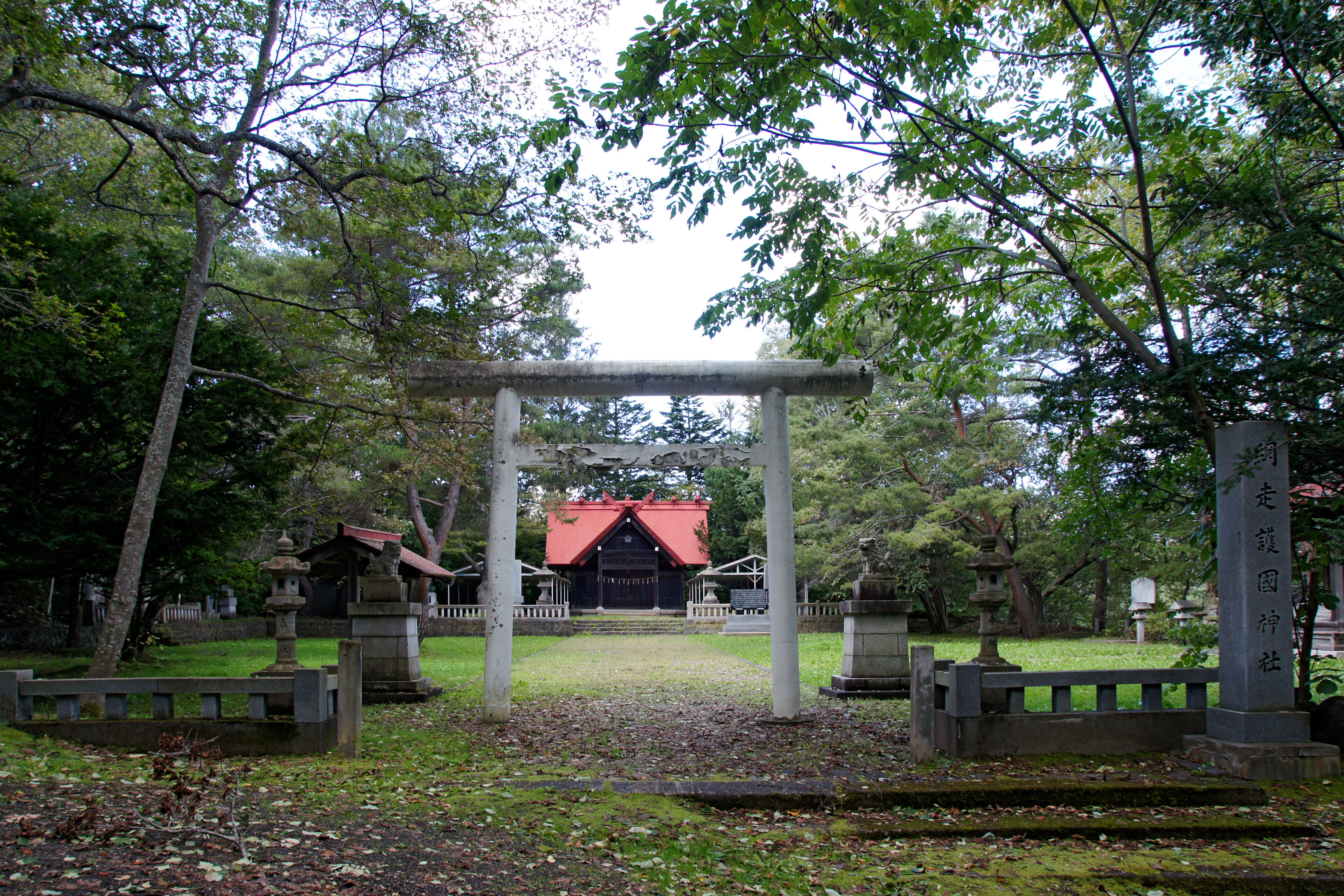 Abashiri-gokoku-jinja in Abashiri, Hokkaido prefecture, Japan